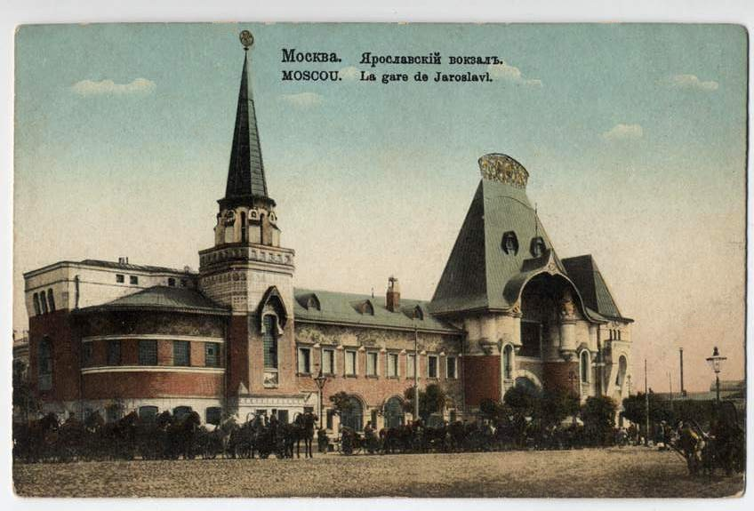 pre-revolutionaty russian postcard of Yaroslavsky Rail Terminal